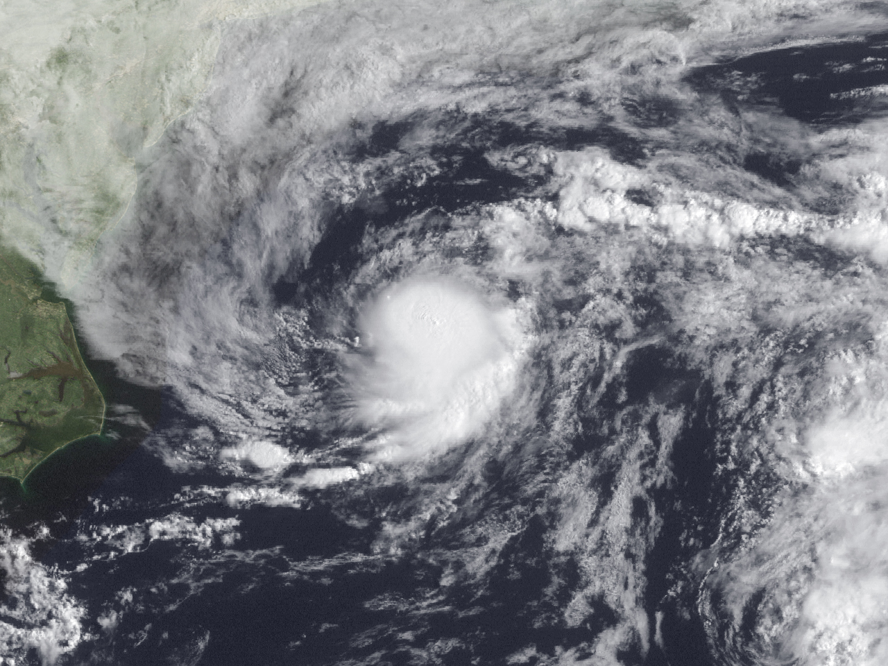 Shower activity has increased this morning in association with the area of low pressure located about 225 miles east-northeast of Cape Hatteras North Carolina. The low is currently moving to the northeast at 15 MPH along the relatively warm waters of the gulf stream. This system still has some potential to become a tropical cyclone over the next 12-24 hours but is not expected to threaten any land areas.